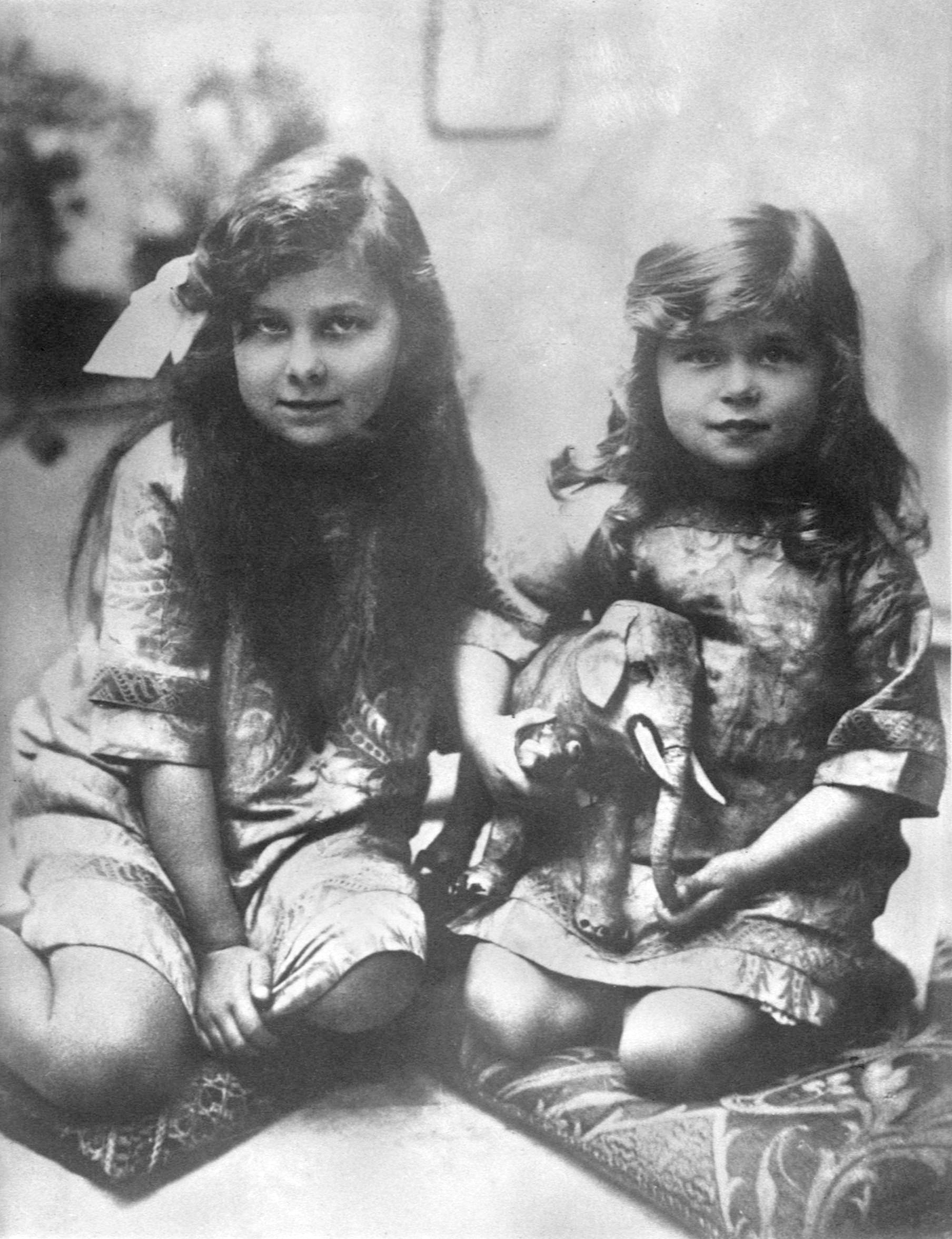 Princesses Maria and Kira Kirillovna of Russia, the two little girls of Grand Duke Kirill, their mother was the daughter of the Duke of Edinburgh (one of the princesses holding a stuffed elephant).